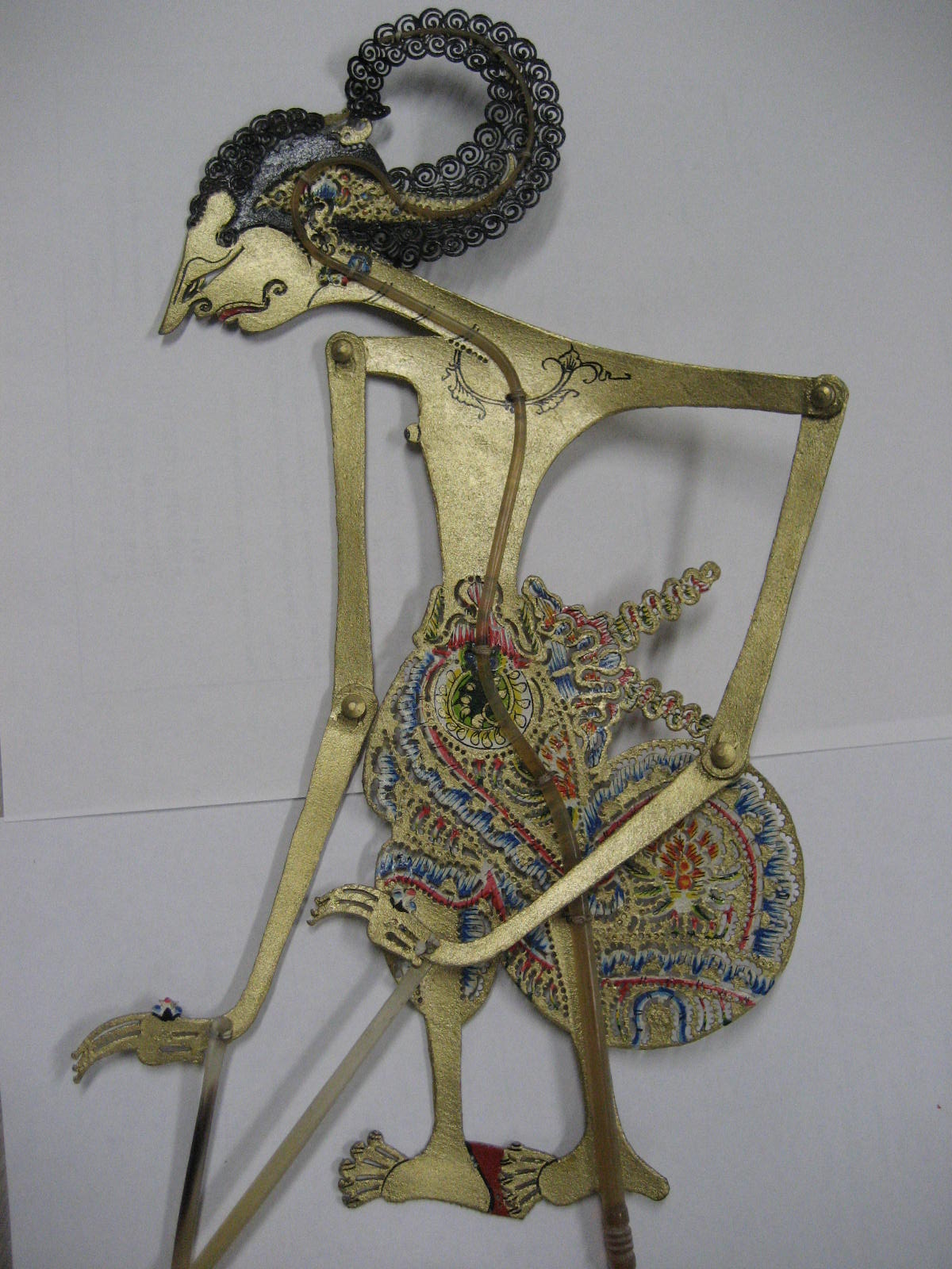 Arjun in Javanese wayang show